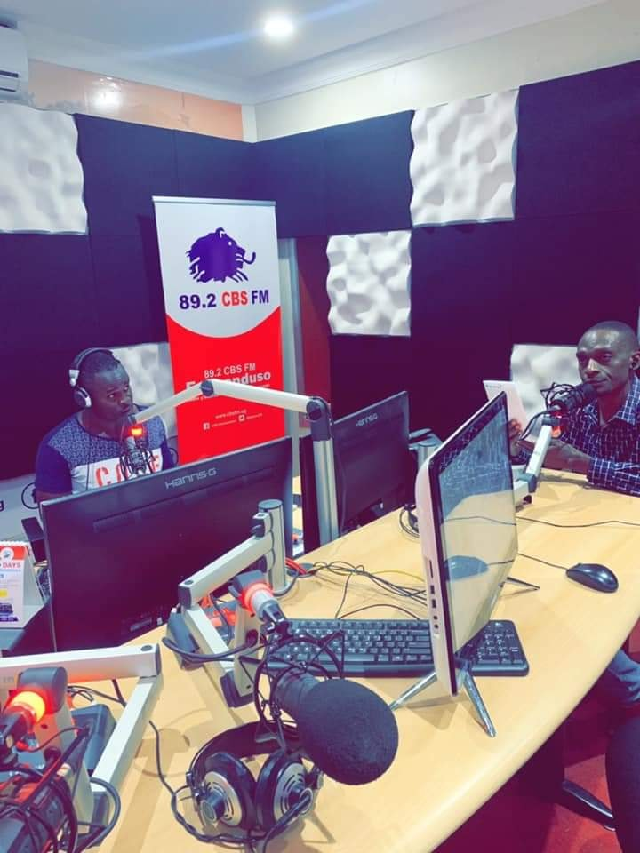 cbs studios